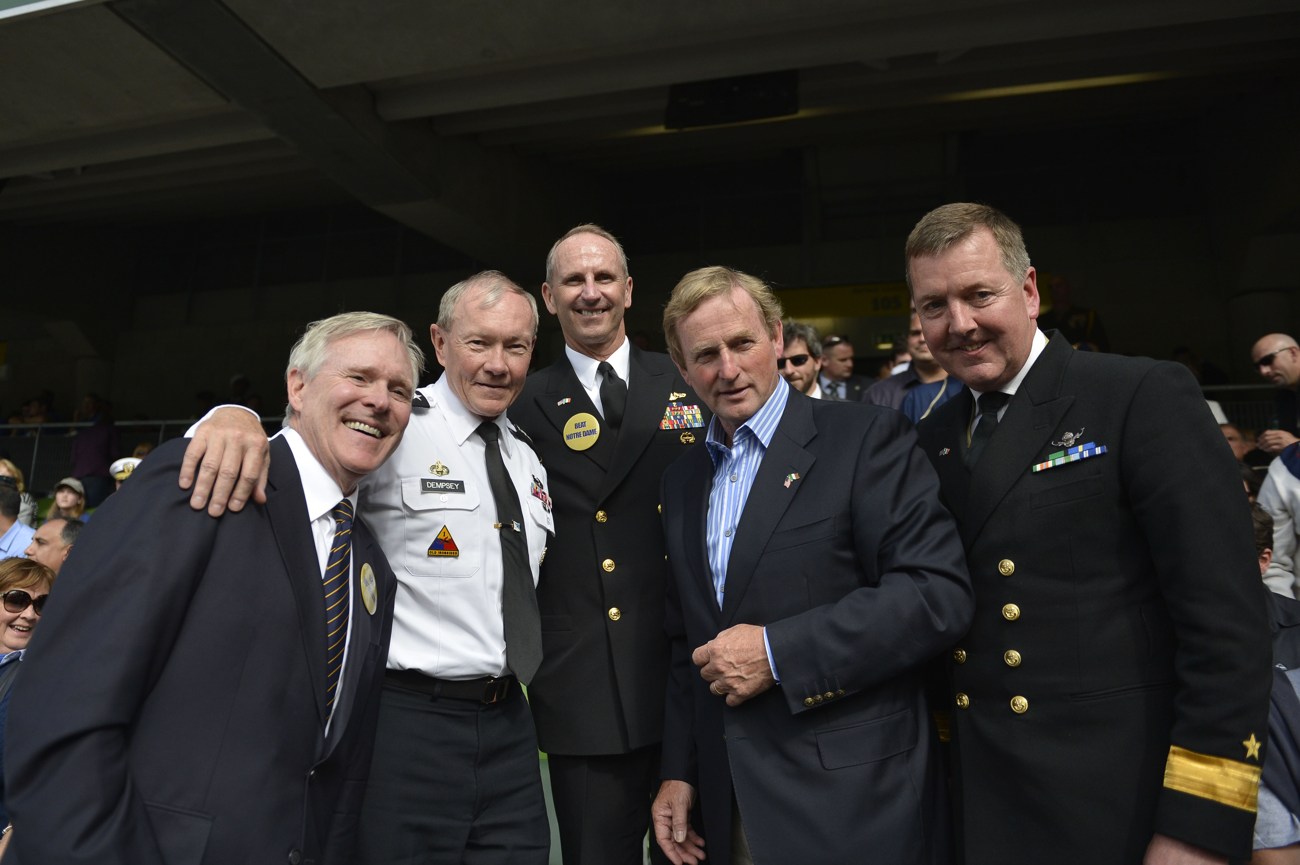 DUBLIN (Sep. 1, 2012) Secretary of the Navy (SECNAV) the Honorable Ray Mabus, left, Chairman of the Joint Chiefs of Staff Gen. Martin Dempsey, Chief of Naval Operations (CNO) Adm. Jonathan Greenert, Irish Prime Minister Enda Kenny and Irish Flag Officer Commanding Naval Service Commodore Mark Mellett attend the Notre Dame versus Navy NCAA Emerald Isle Classic college football season opener. Notre Dame beat Navy 50-10. (U.S. Navy photo by Mass Communication Specialist 1st Class Peter D. Lawlor/Released) 120901-N-WL435-615 Join the conversation navylive.dodlive.mil